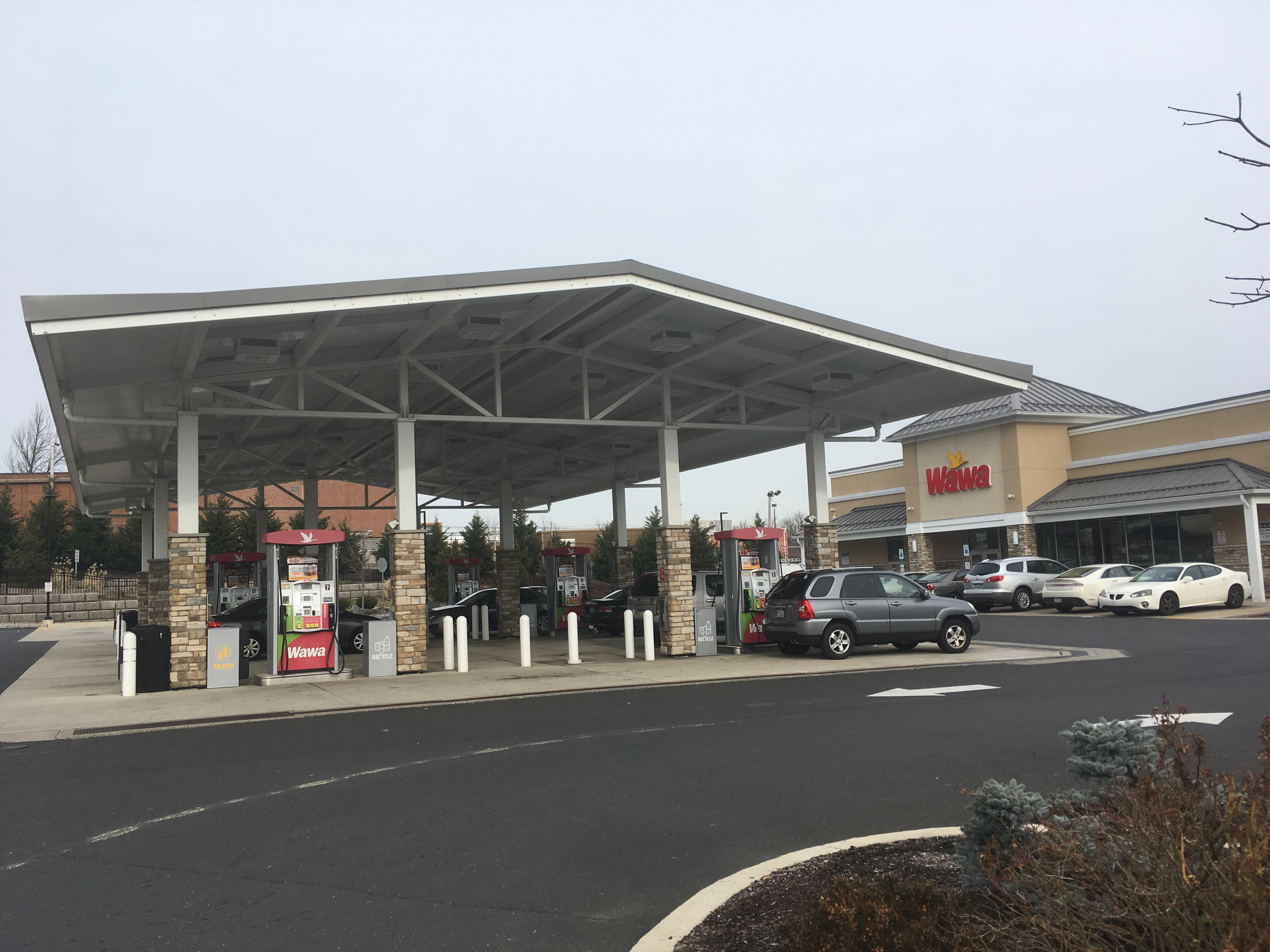 Wawa convenience store and gas station located along Pennsylvania Route 263 (York Road) in Willow Grove, Pennsylvania